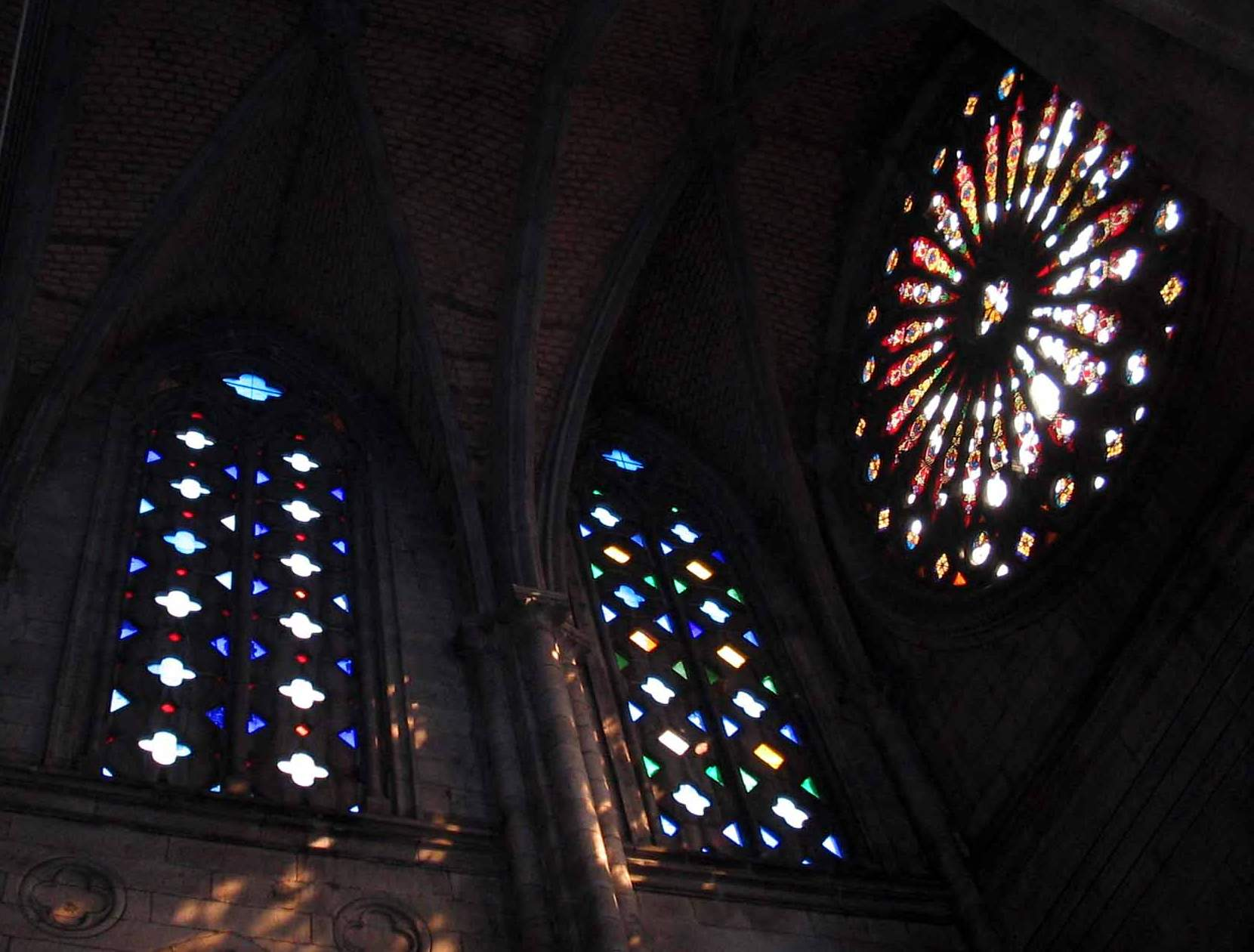 Shishi Church, Guangzhou, China